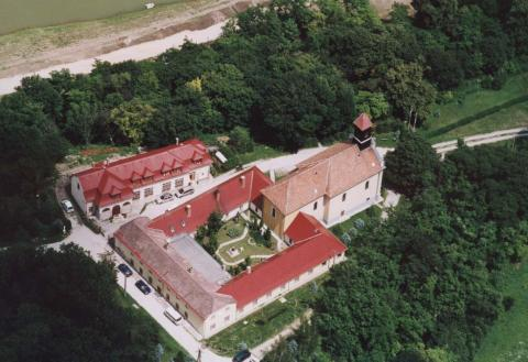 Péliföldszentkereszt Hungary aerialphotography. Nazarene monastery, and Holy Cross Church Directory. This is a photo of a monument in Hungary, Identifier: 6114 This is a photo of a monument in Hungary, Identifier: 6113